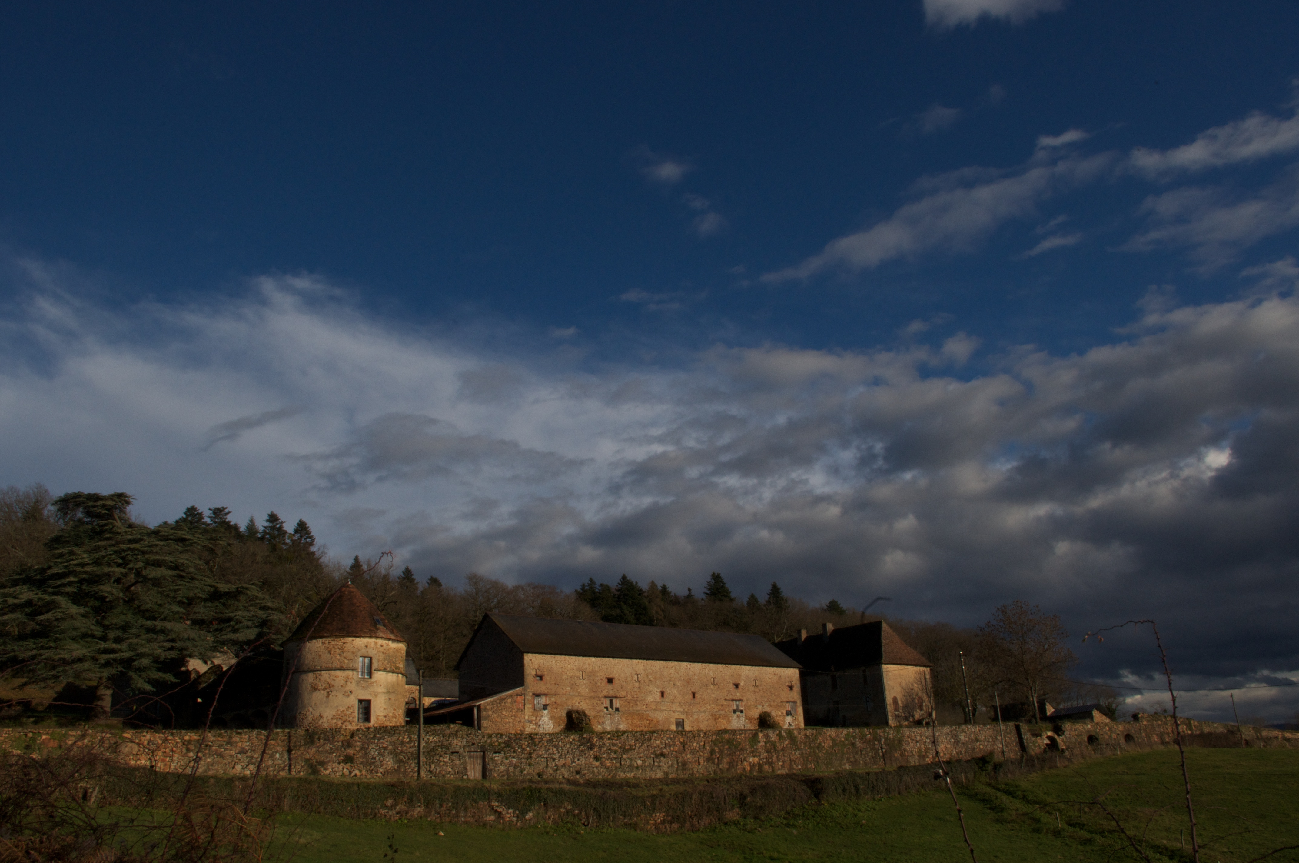 Feudal Dependencies of Castle of Saulières